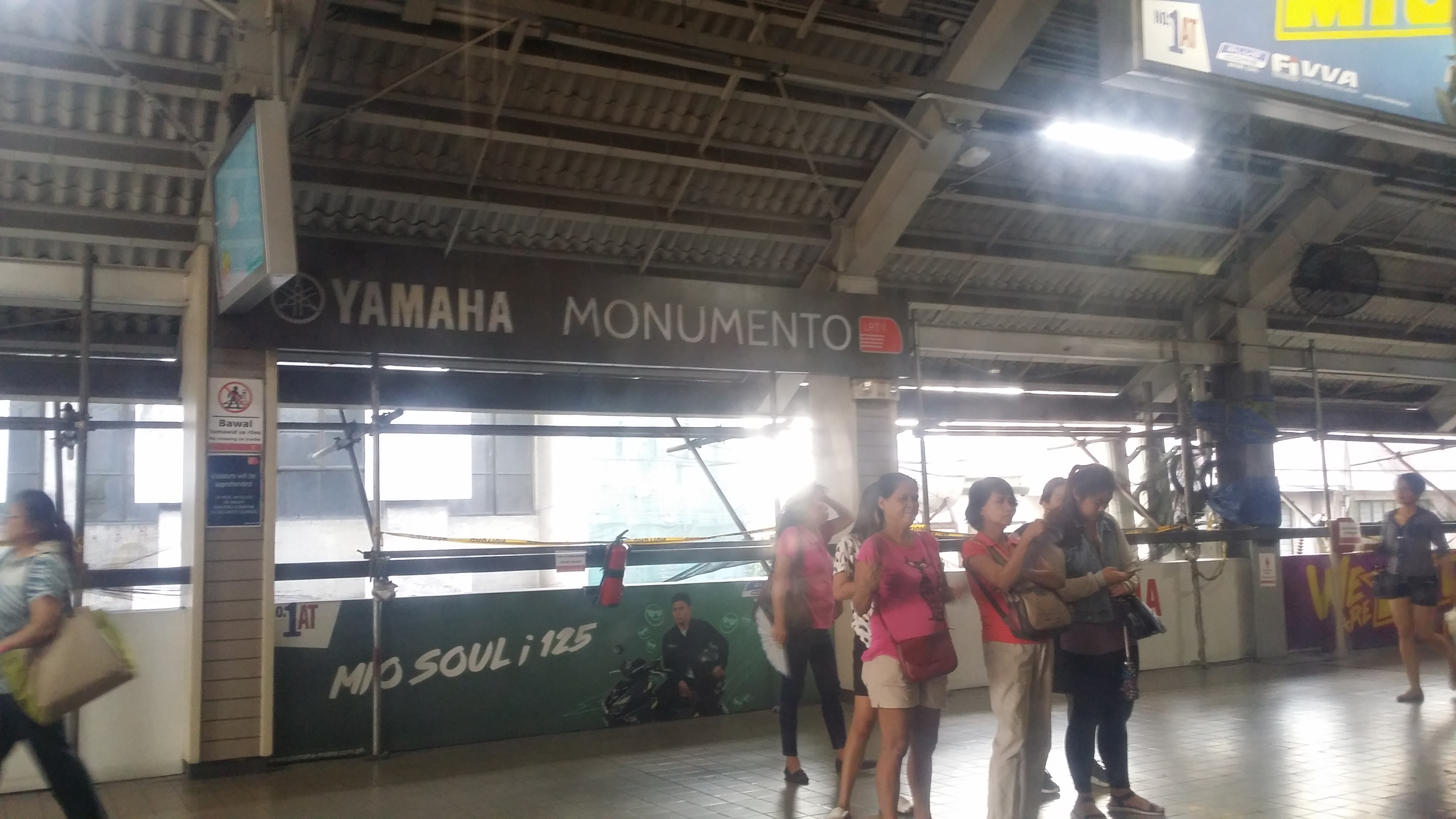 Platform of Monumento LRT Station